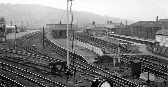 Batley (ex-GN) Station. This is the ex-GNR Station at Batley, looking NE from beside the ex-LNW Manchester - Leeds main line - seen in the foreground, the picture being taken possibly from the platform of the ex-LNW Batley Station, which is the present Station. The ex-GN Station depicted, which was closed on 7/9/64, was served by the lines from Wakefield (Westgate) and Ossett via Dewsbury (closed 7/9/64, Goods 15/2/65). It went on to Leeds (Central) via Tingley and Beeston (closed to passengers 29/10/51, goods 30/6/64) and to Bradford (Exchange) via Adwalton Junction (closed 7/9/64, Goods 15/2/65), then Drighlington & Adwalton and Laisterdyke (closed to passengers 4/7/66, Goods 31/10/66 - 16/3/68). There was also a GN line (Goods only) from Ossett to Batley direct, which lasted until 1/5/72. The history of the Railways in this area is very complicated - I'm no expert and I'm open to correction and enlightenment!